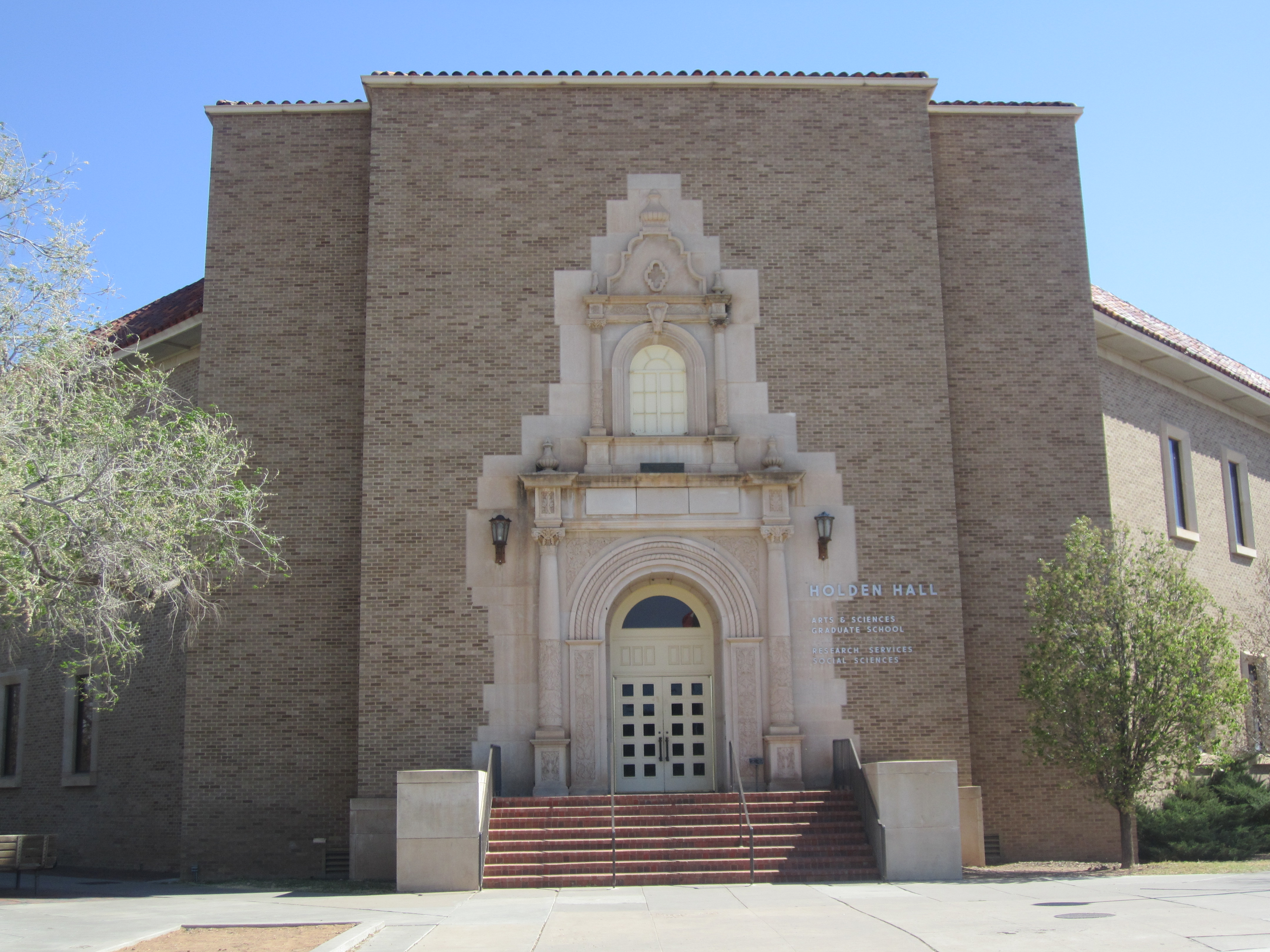 I took photo in Lubbock, TX, with Canon camera.